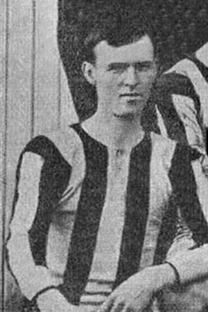 Arnold Warren while with Brentford FC in 1902/03